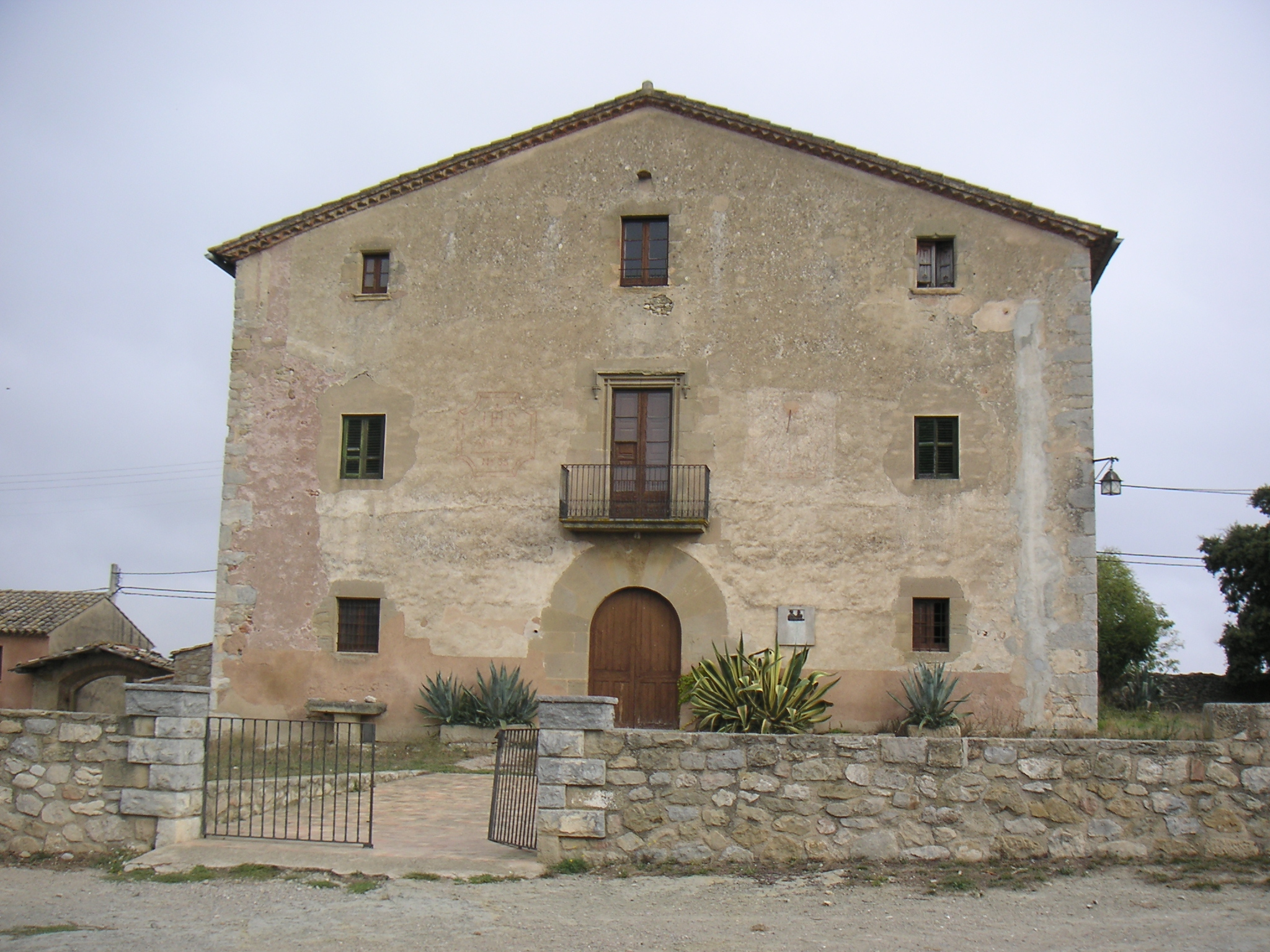 The birthplace of Ildefons Cerdà in Centelles, Catalonia.